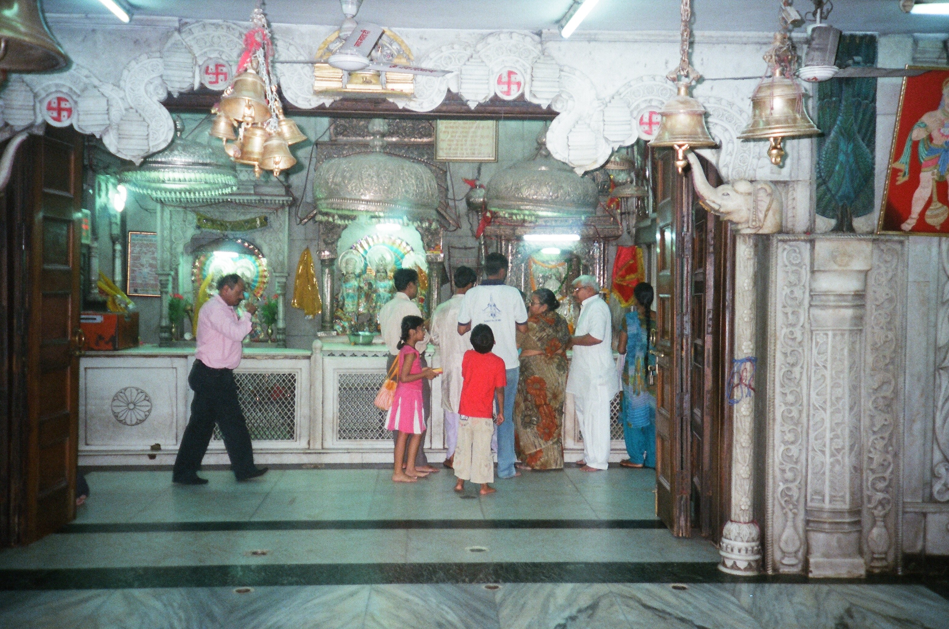 Hanuman and other deities in Sanctum Sanctorum in Hanuman Temple, Connaught Place, New Delhi